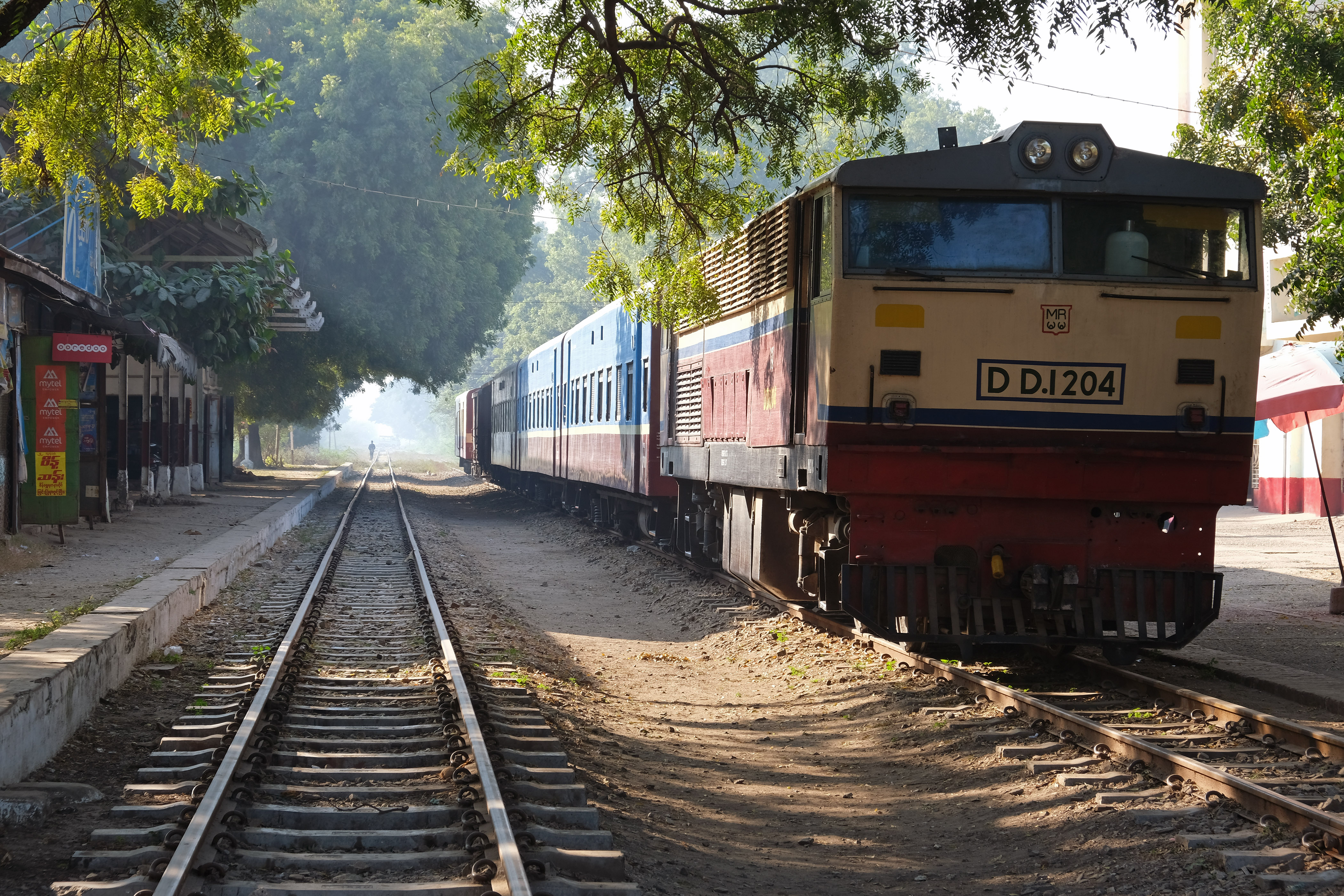 Train from Bagan to Mandalay stopping at Myingyan Railway Station.